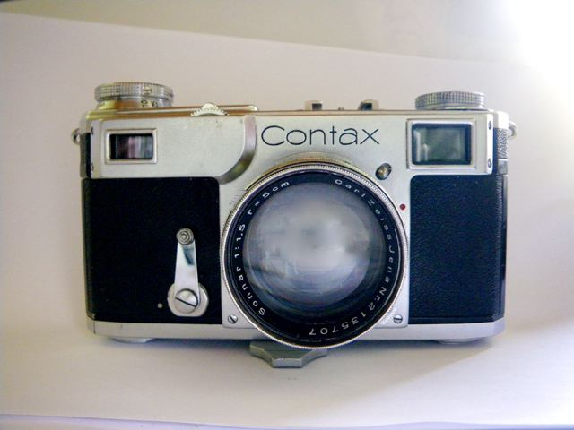 Contax II with Sonnar 5cm F1,5